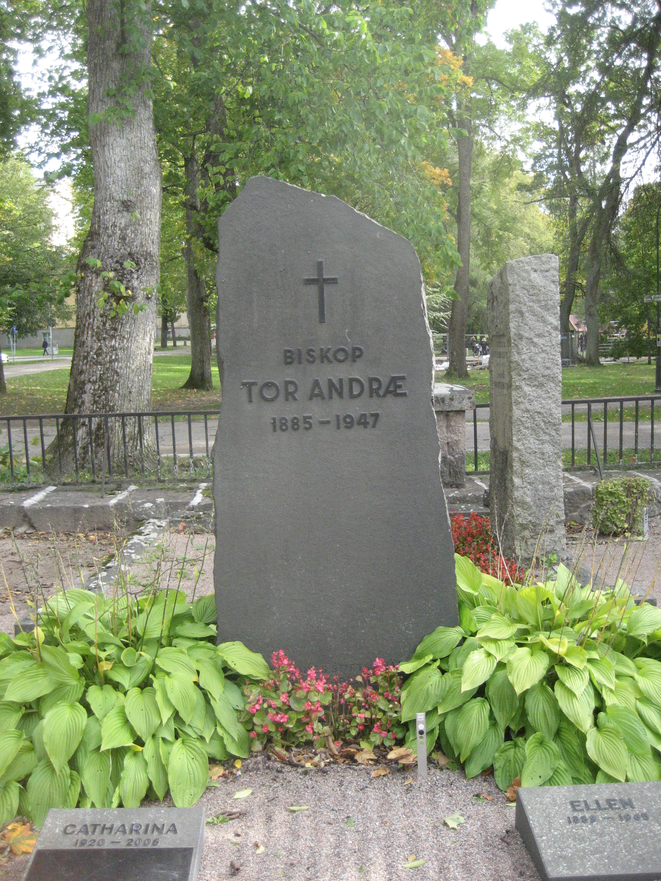 Bishop Tor Andræ, Uppsala Cemetery (Sweden)